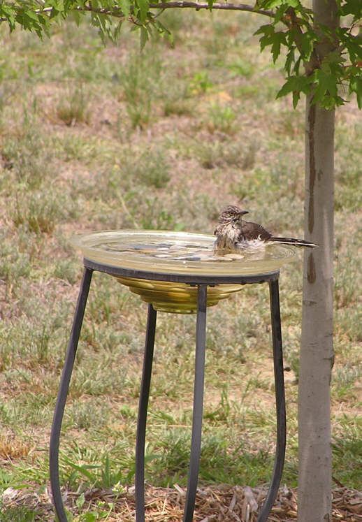 A Northern Mockingbird taking a bath in bird bath in Statesboro, Georgia, southern United States. Birds enjoy having a bird bath available. During the hot summer months in south Georgia, this bird bath is used daily by a variety of birds including mockingbirds, bluebirds, and house finches. This was one of a series of photos taken of this mockingbird who spent about five minutes splashing about jumping in and out of the water. If you look at the grass in the background, you can see that this was a dry time of the year and the grass had gone dormant due to the low rainfall. Even with a small farm pond nearby, birds still came to this birdbath. This particular birdbath has a somewhat deep bowl so it was partially filled with smooth stones so as to reduce the depth to a more birdlike depth of perhaps four inches. The birdbath is made from a large glass bowl which is inserted into an anodized aluminum frame. The bowl is not attached to the frame so it is easy to remove for cleaning.